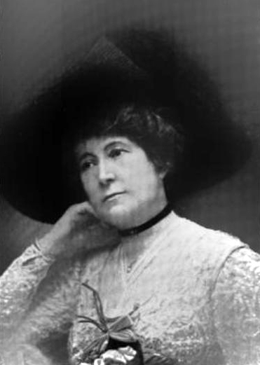 Etta Greer Dupont, American photographer, wife of Aimé Dupont